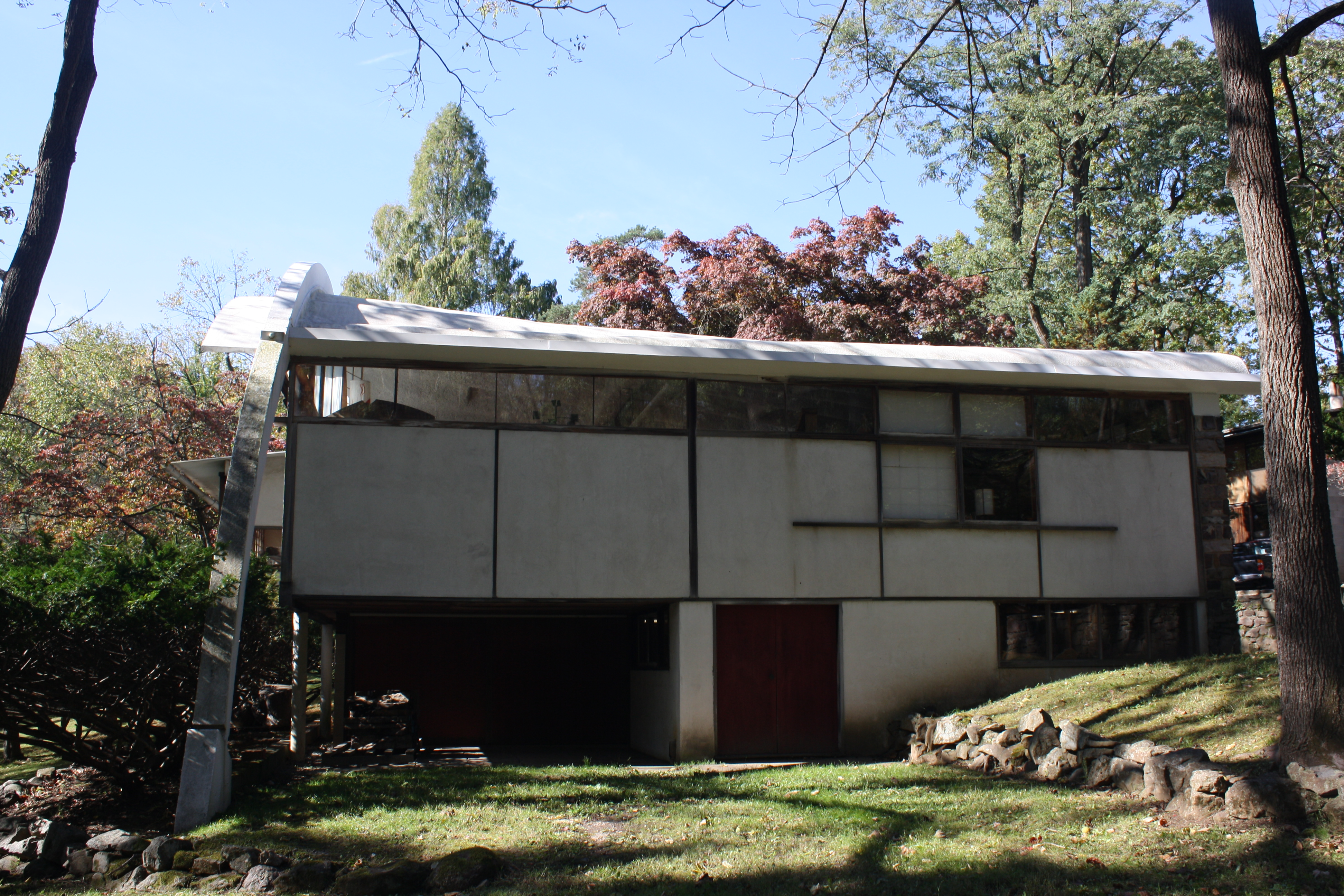 George Nakashima House, Studio and Workshop, Conoid Studio. Object location40° 20′ 23″ N, 74° 57′ 19″ W